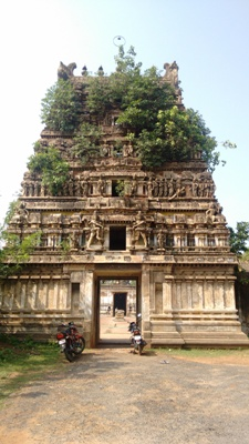 Tiruvilanagar uchivanesvarartemple திருவிளநகர்உச்சிவனேசுவரர் கோயில்